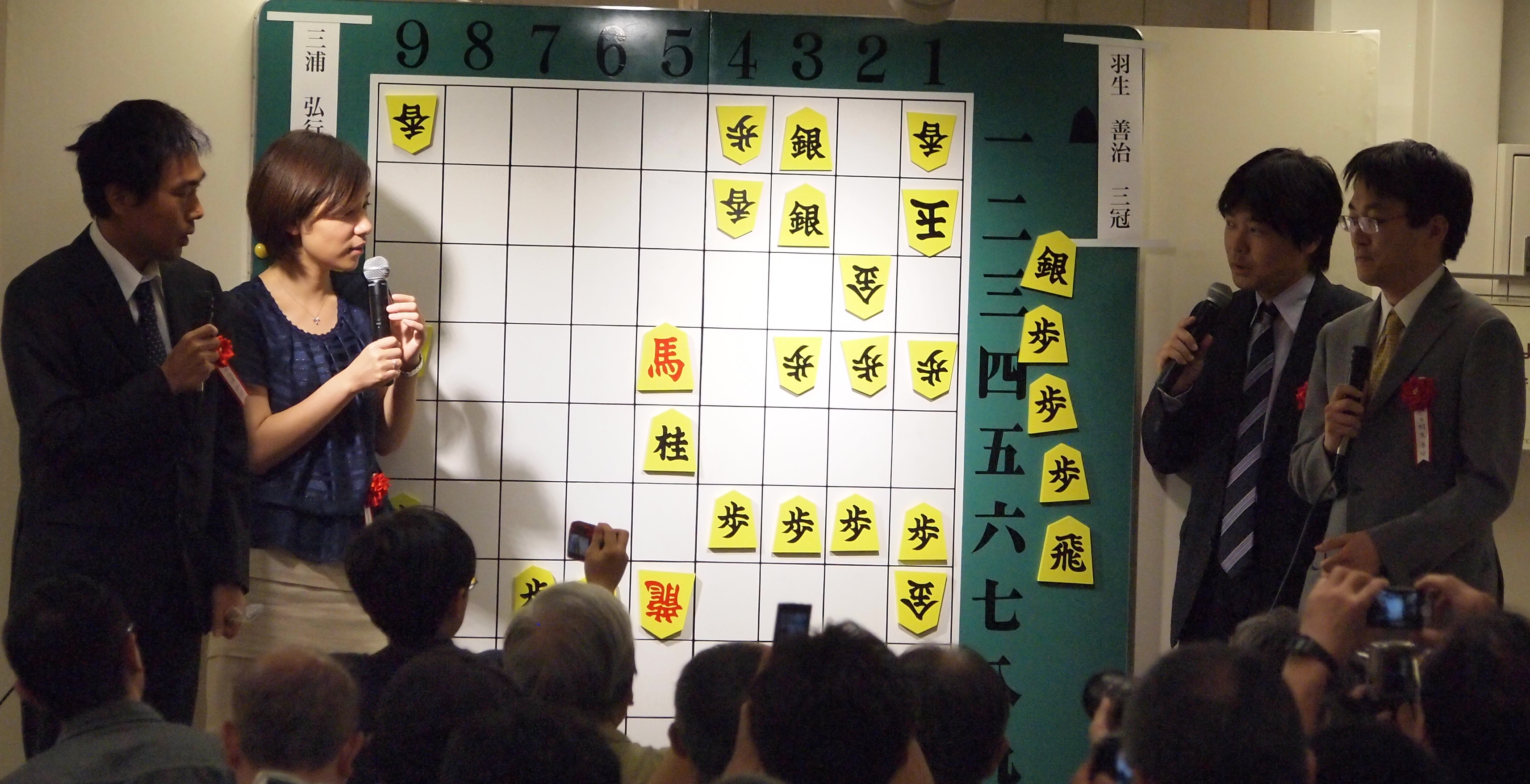 Professional shogi players – Hiroyuki Miura, Rieko Yauchi, Takeshi Fujii, Yoshiharu Habu – at the 2013 Tokyo Shogi Matsuri.